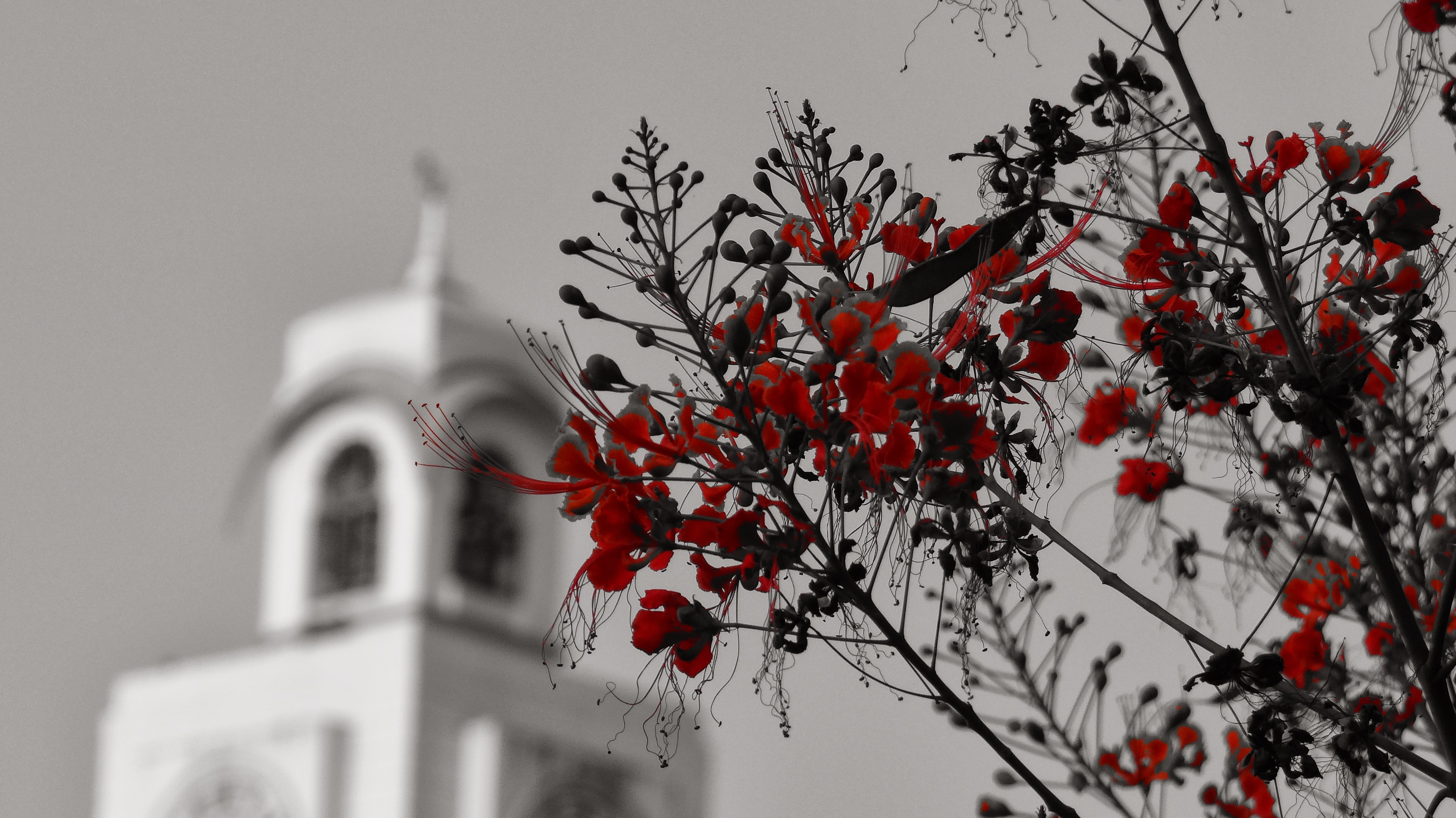 Clock Tower, BITS Pilani